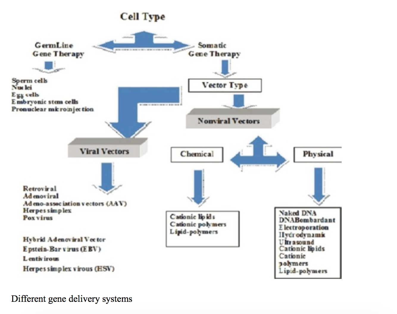 Showing differences in vector approaches.